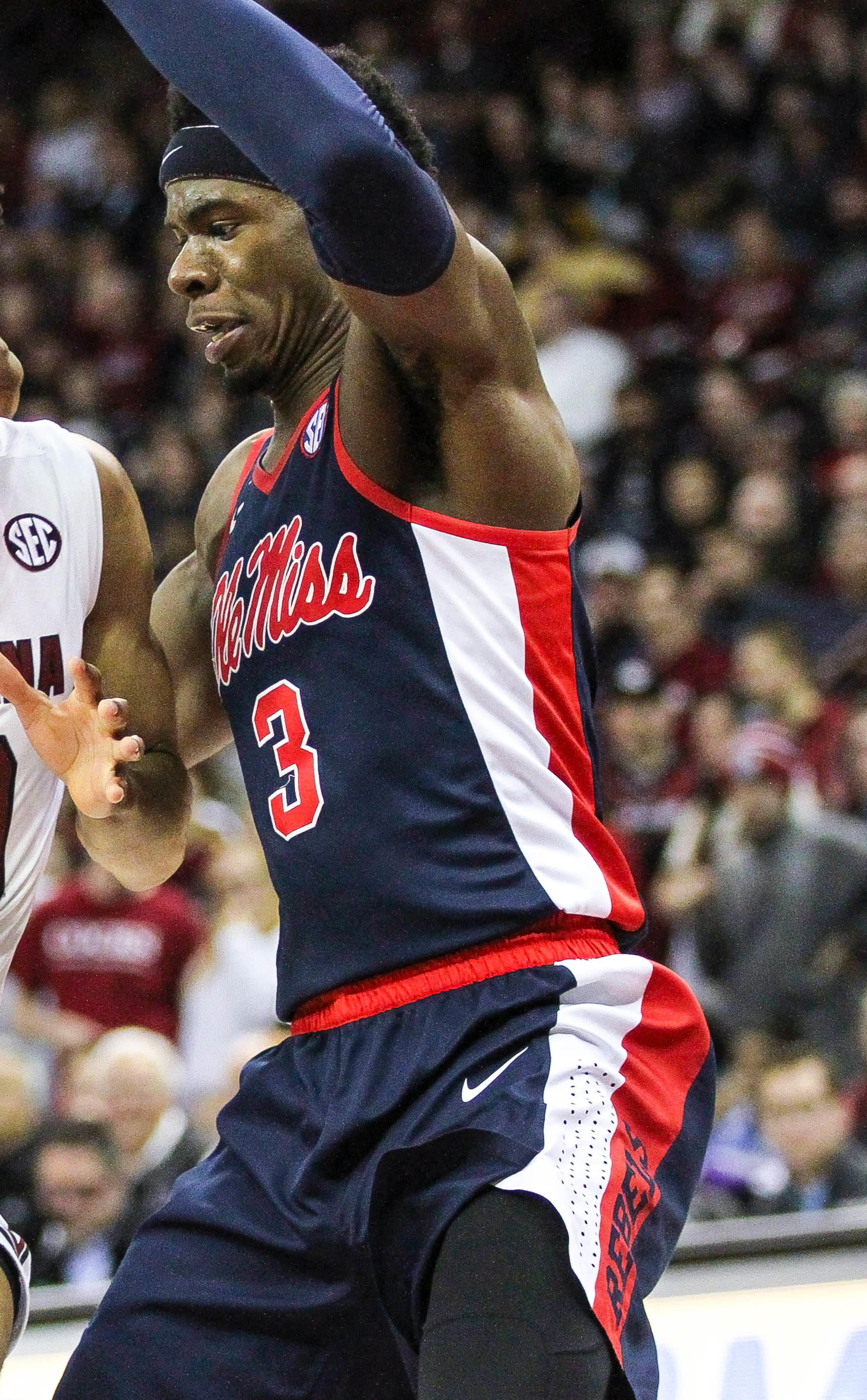 South Carolina vs. Ole Miss